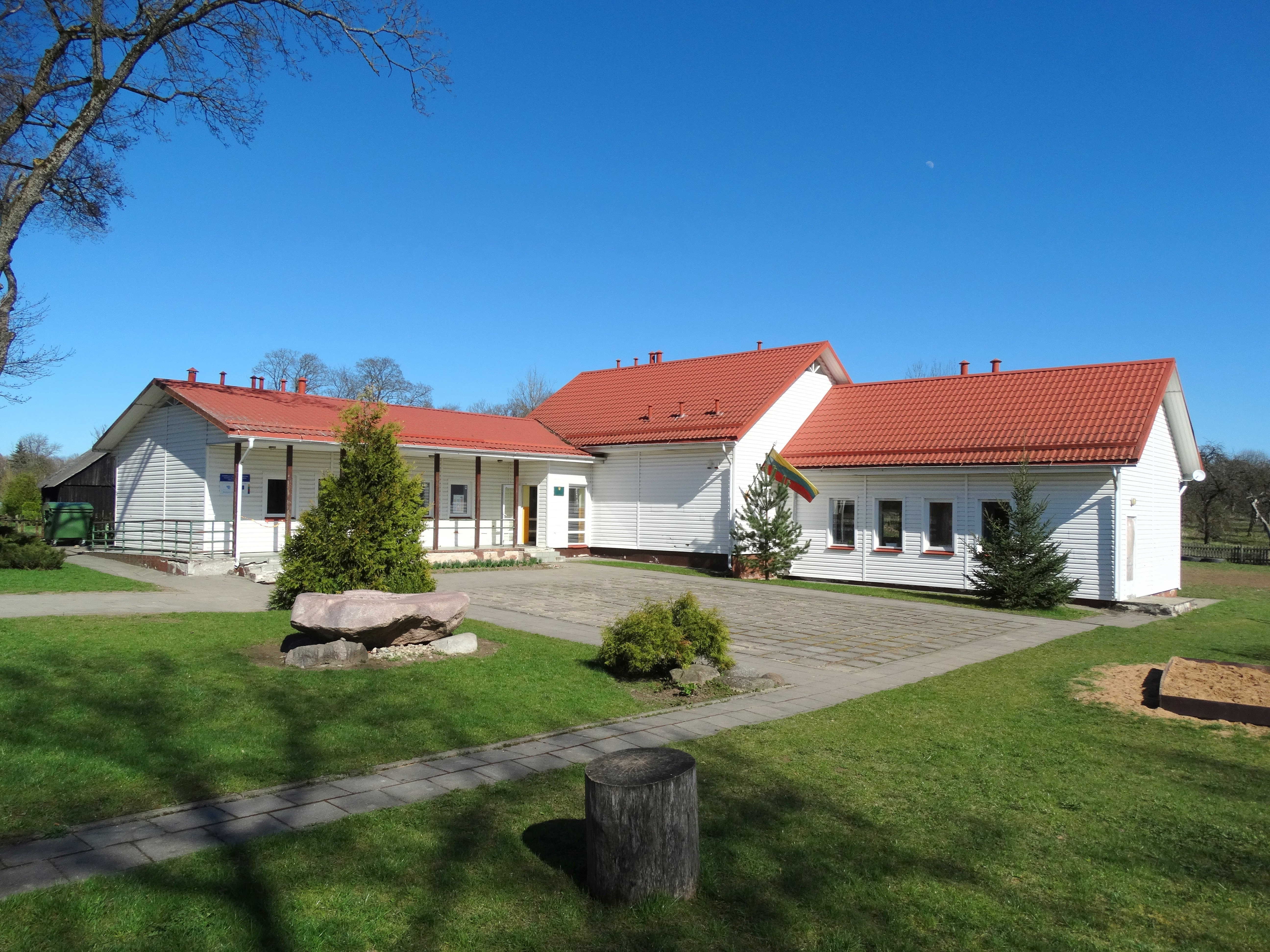 Primary school, Karvys, Vilnius district, Lithuania